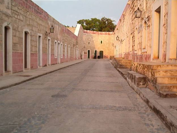 Inside the La Cabaña fortress, an avenue between buildings. Photo taken July 2004 by glasperlenspiel.